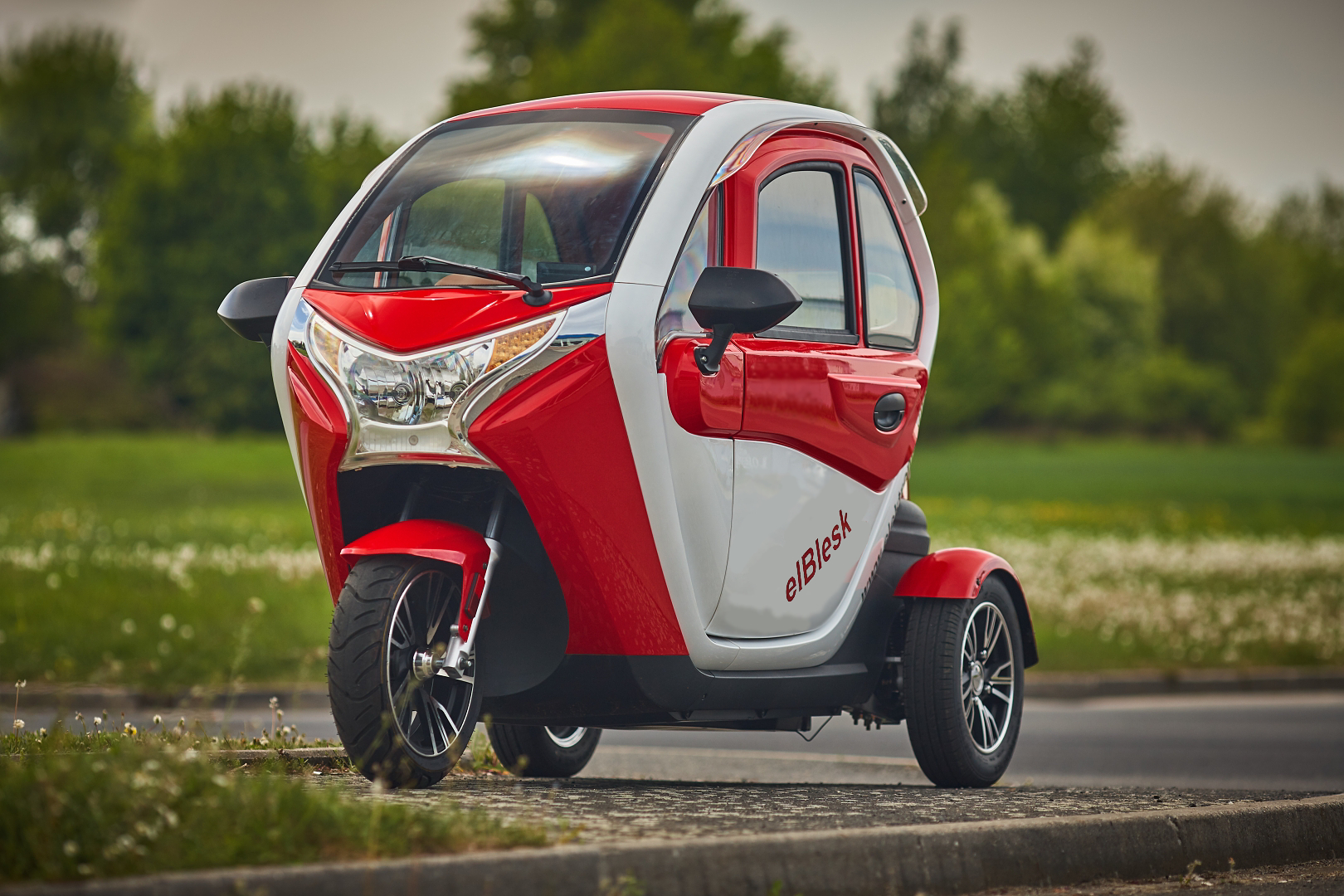 Electric fully covered tricycle. Picture shows model sell by project elBlesk